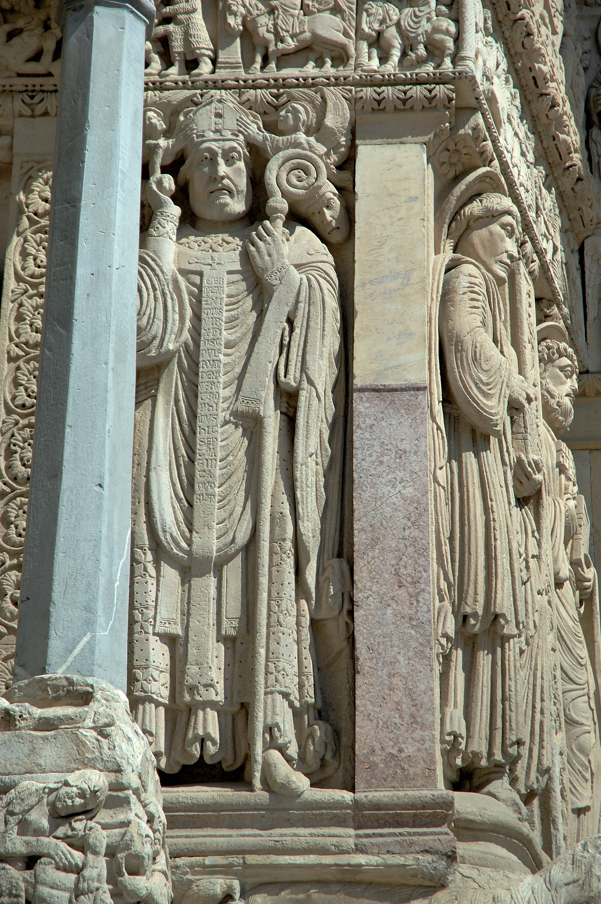 Place République à Arles Statue of Trophimus of Arles on the portal of the Church of St. Trophime, in Arles